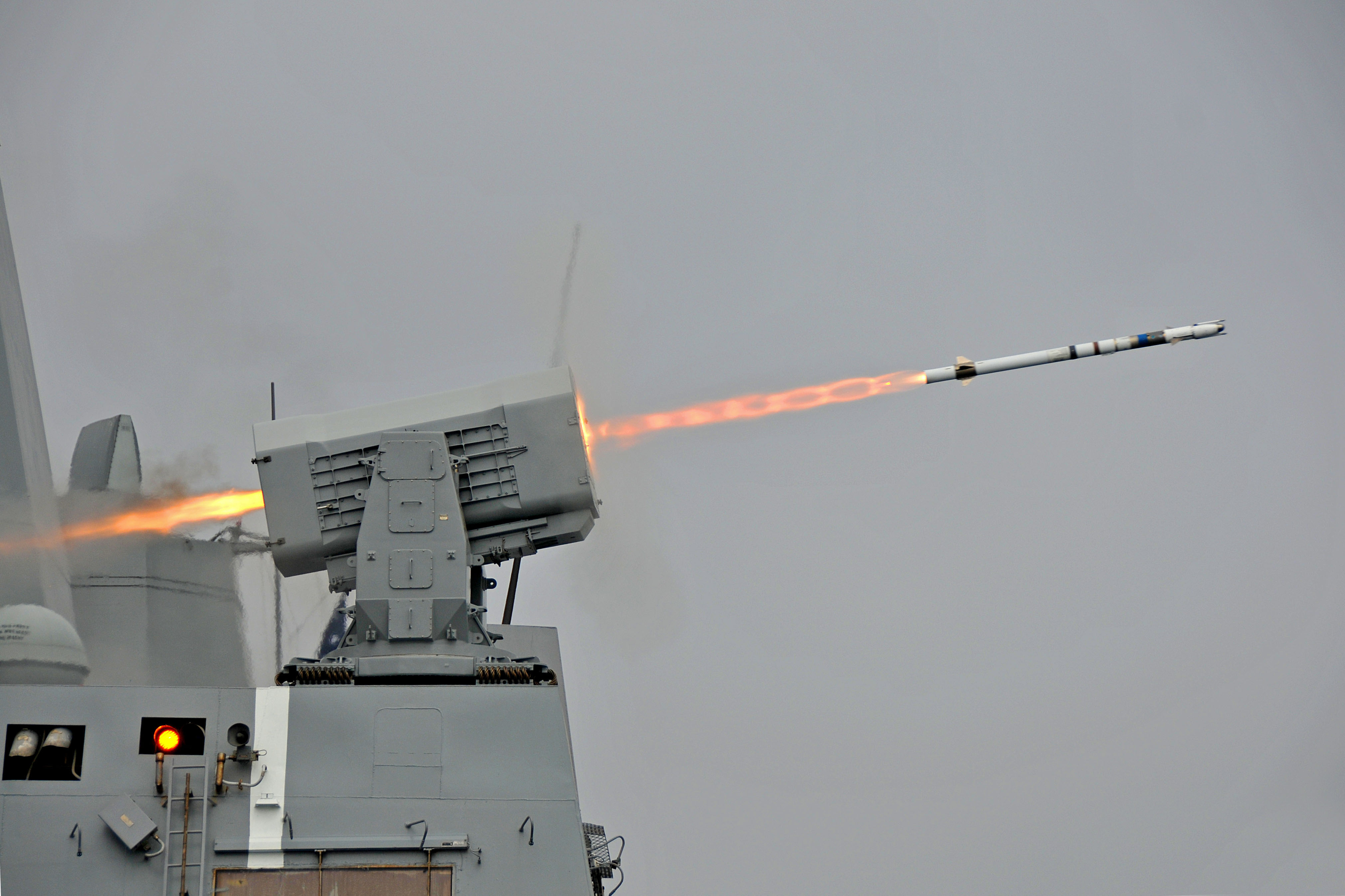 The U.S. Navy amphibious transport dock ship USS New Orleans (LPD-18) fires a RIM-116 surface to air intercept missile from its Rolling Airframe Missile (RAM) launcher while off the coast of California (USA) during a live-fire exercise. New Orleans was underway conducting a certification in preparation to deploy to the U.S. 5th Fleet and U.S. 7th Fleet area of responsibility.